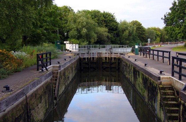 Abingdon Lock, River Thames, Oxfordshire